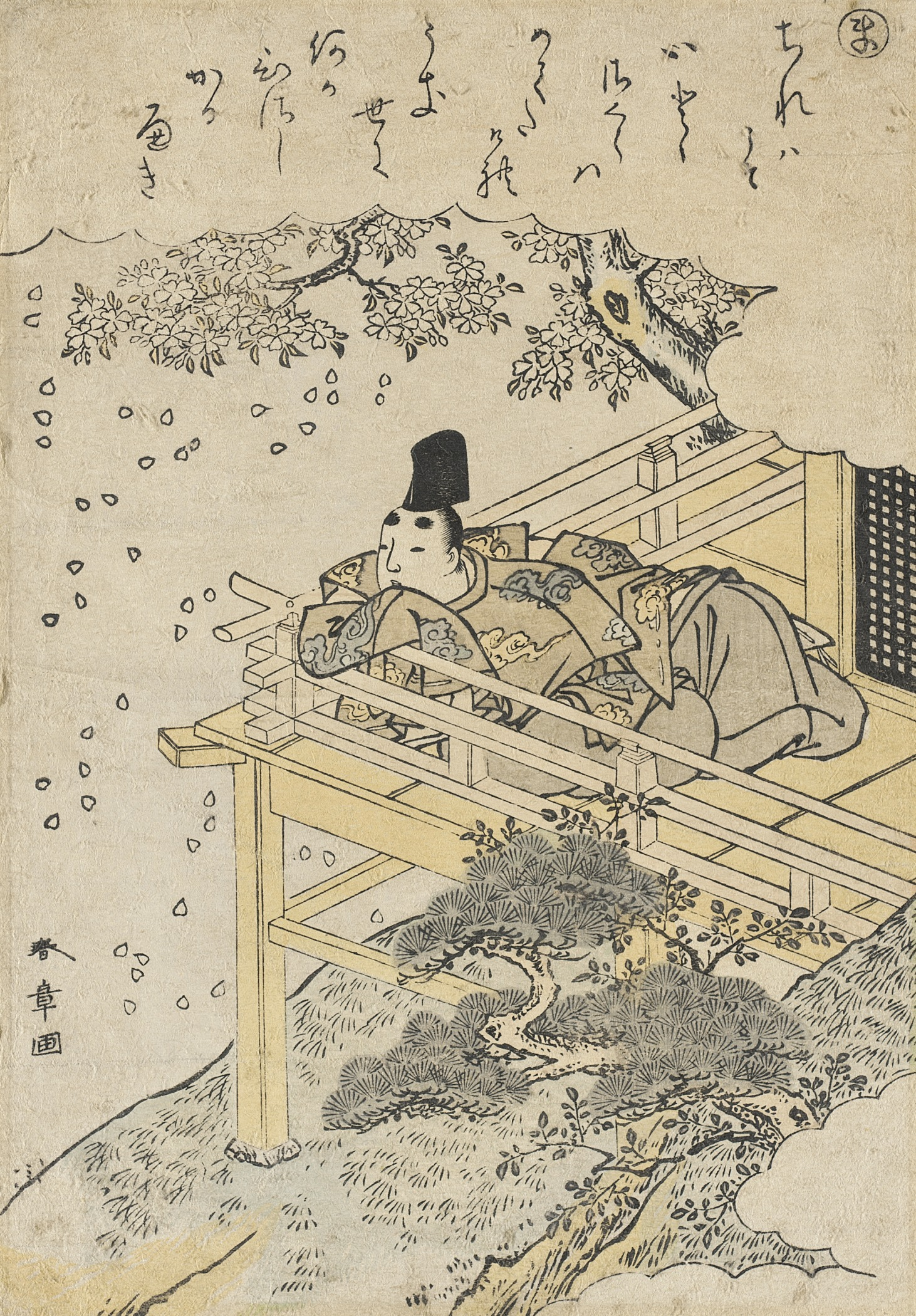 Japan, circa 1772-1773 Prints; woodcuts Color woodblock print Sheet: 8 13/16 x 6 3/16 in. (22.3 x 15.7 cm) Gift of Mr. and Mrs. Cecil Brown (AC1999.183.2) Japanese Art